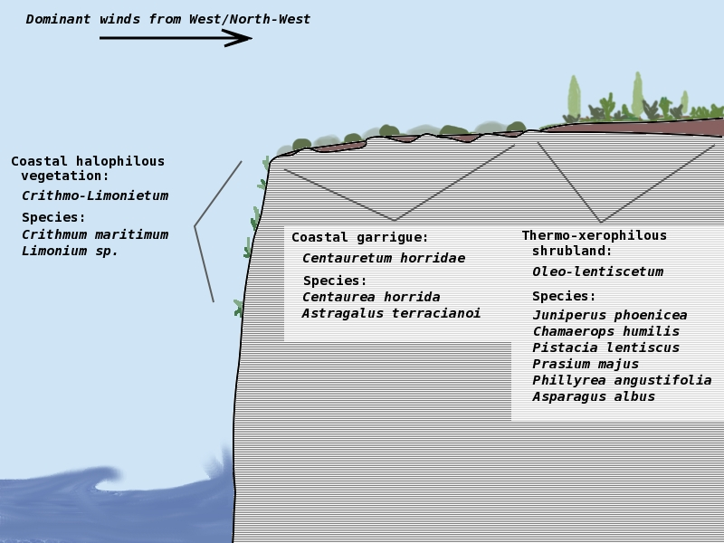 Localization of Centauretum horridae garrigue on the coasts of North-West Sardinia.